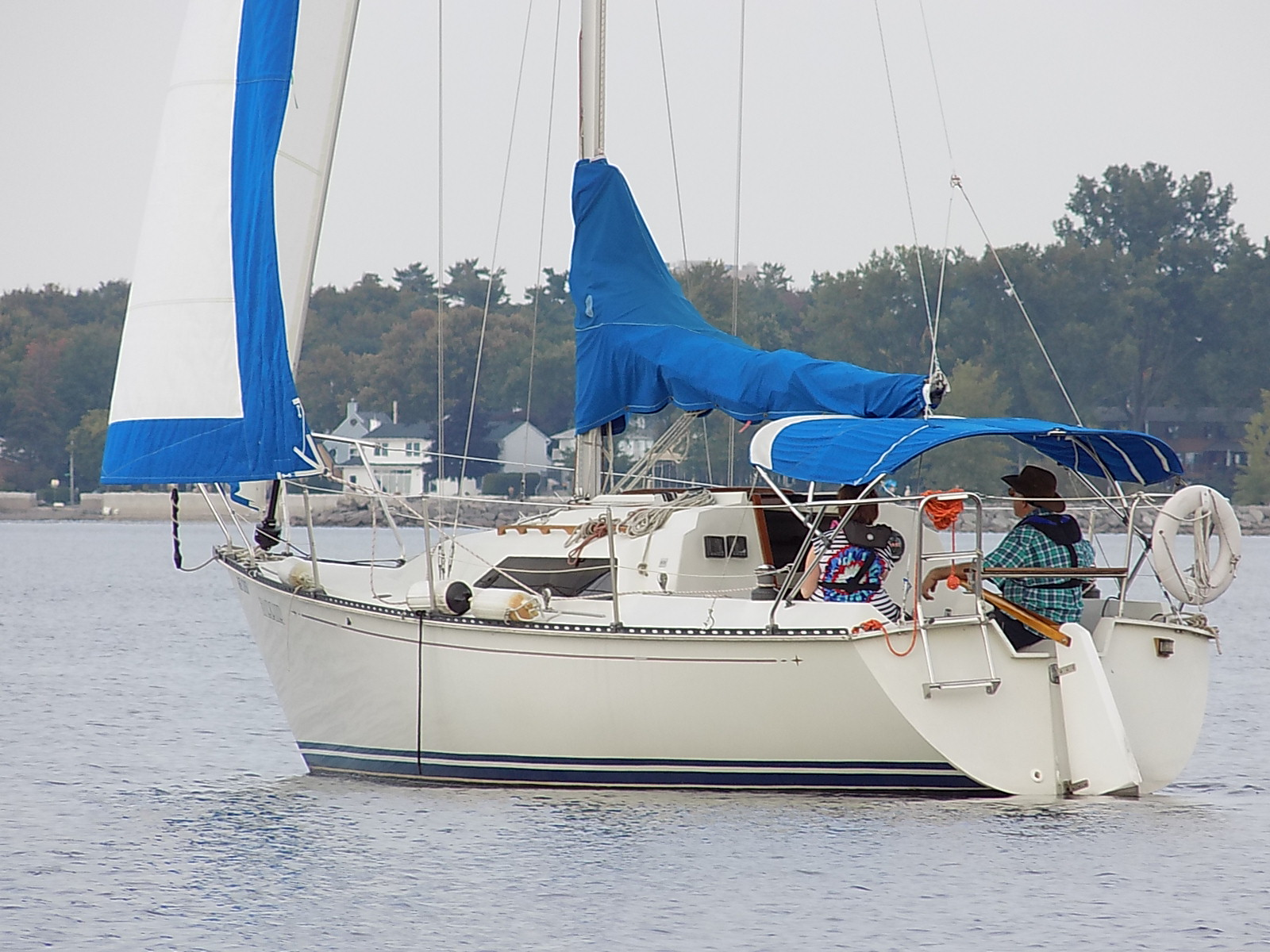 A C&C 27 Mark V sailboat named Harrier.